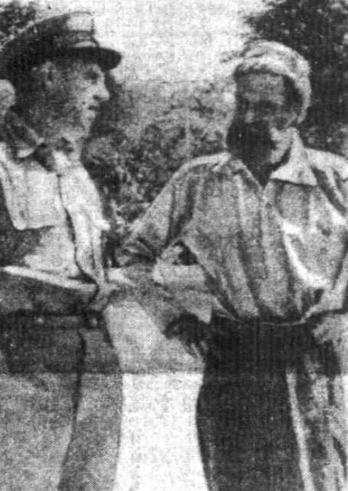 Australian painter Ian Fairweather and Wing Commander A. McCormack, Commanding Officer, North-West Area, R.A.A.F.